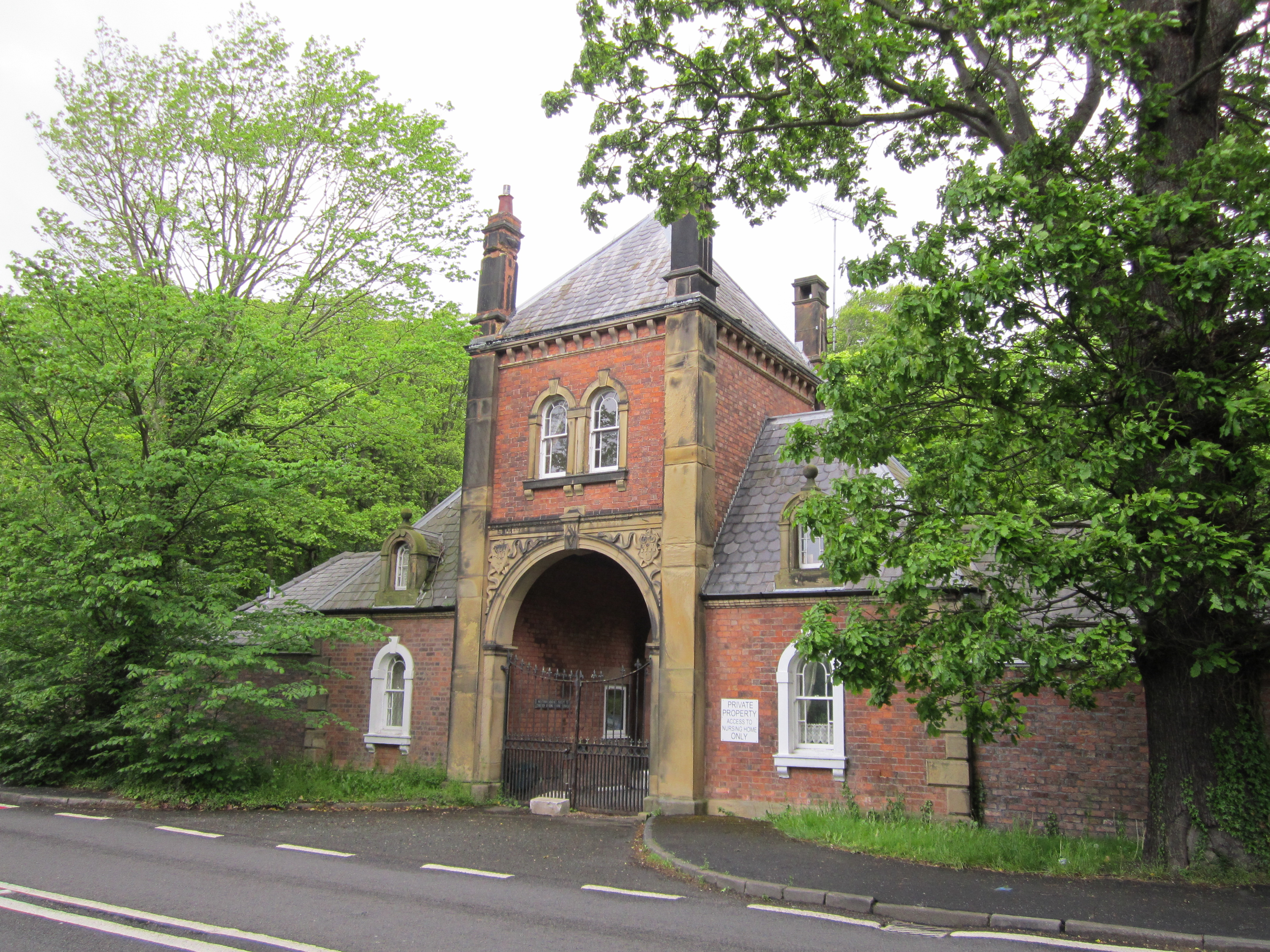 West Lodge to Ince Blundell Hall on Moor Lane, Merseyside, England.